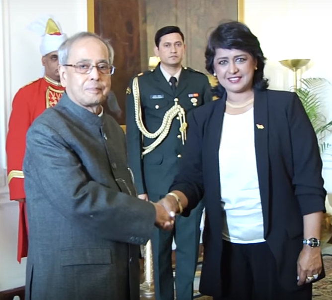 President of the Republic of Mauritius, Ameenah Gurib,(whlist calling on the President of India-December 7, 2015.)